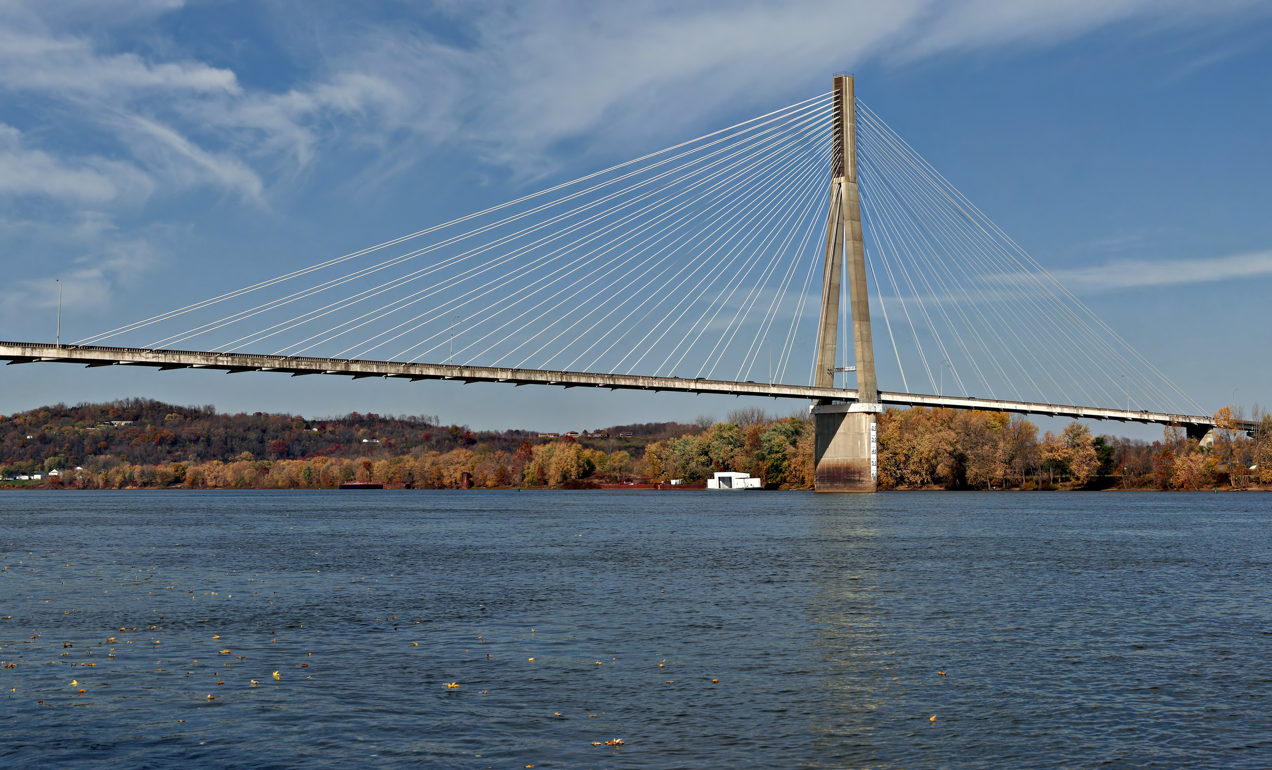 View of the Huntington-Proctorville East End Bridge from the West Virginia side.